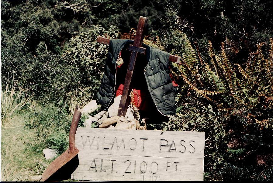 The Old Sign at the Summit of the Wilmot Pass Fiordland New Zealand